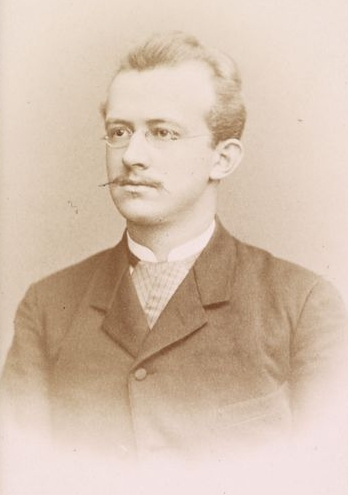 Henry Schröder